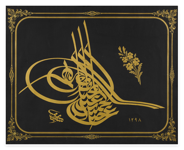 Imperial tughra of Sultan Abdulhamid II (r. 1876-1909). It reads: Abdulhamid Han bin Abdulmecid, el muzaffer daima Istanbul, dated 1298/1881 Gold on painted cardboard, 90.5 x 73.5 cm Sakip Sabanci Museum